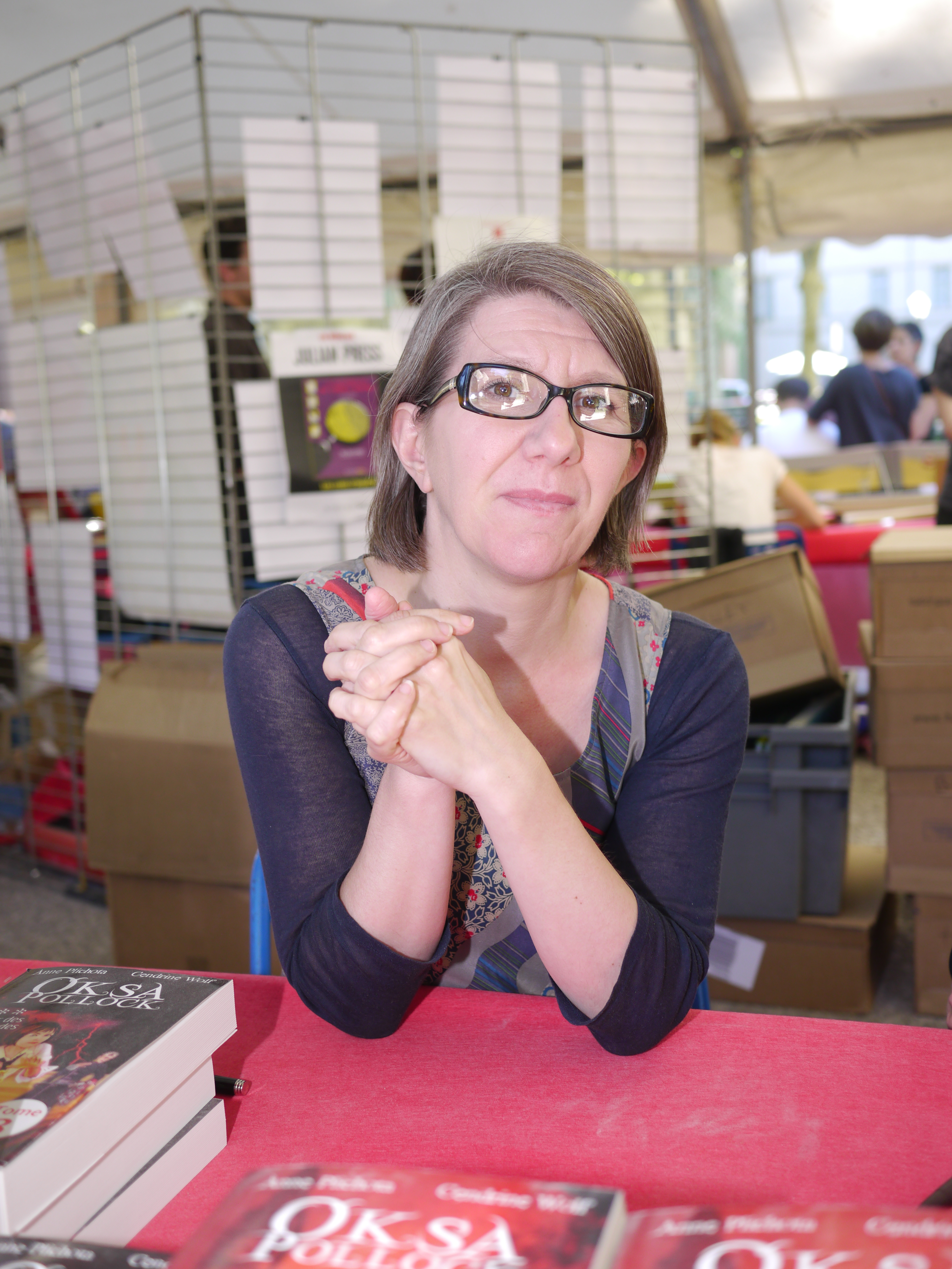 Comédie du Livre 2011 edition of Montpellier